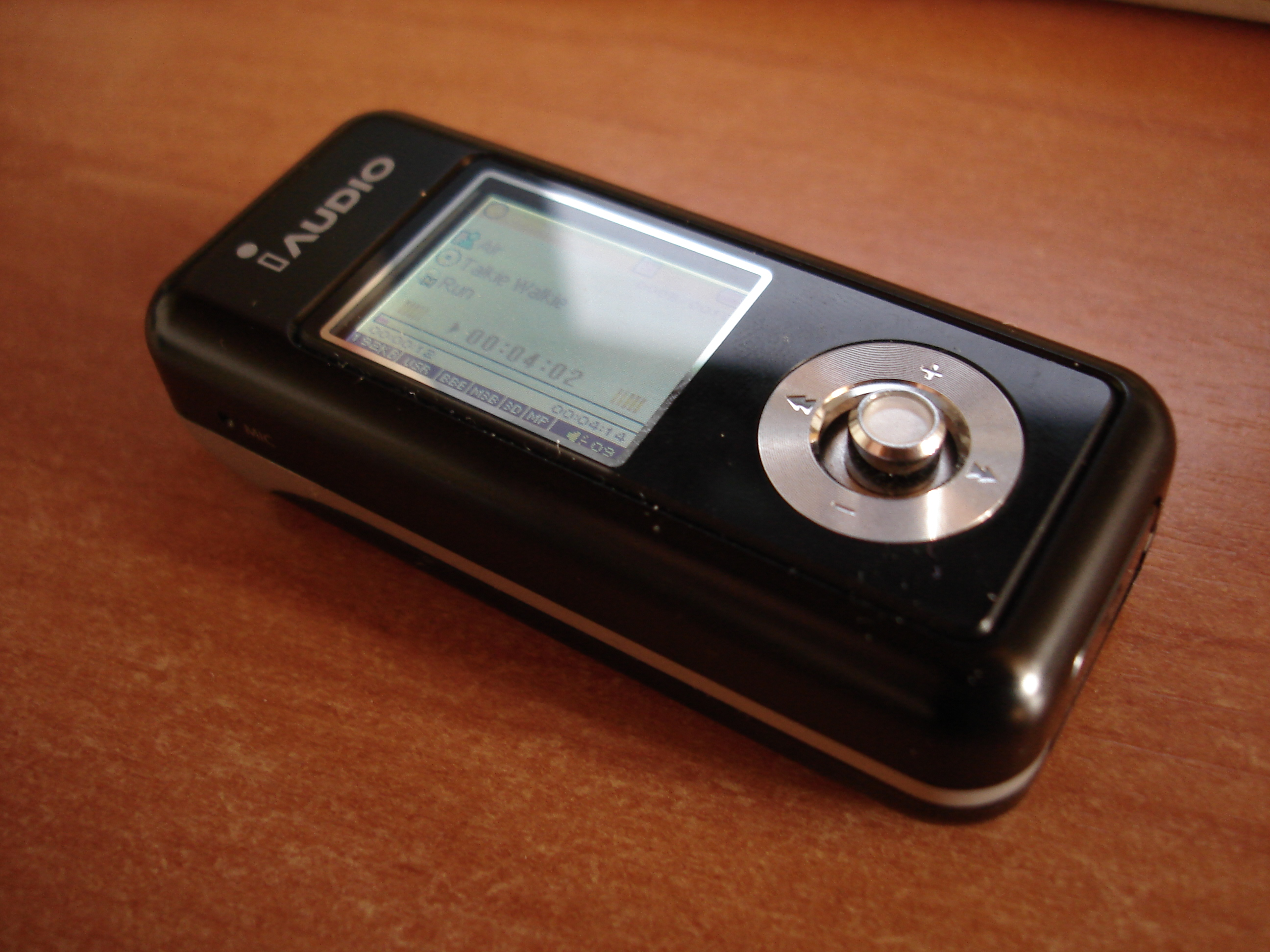 IAudio U3 multimedia player